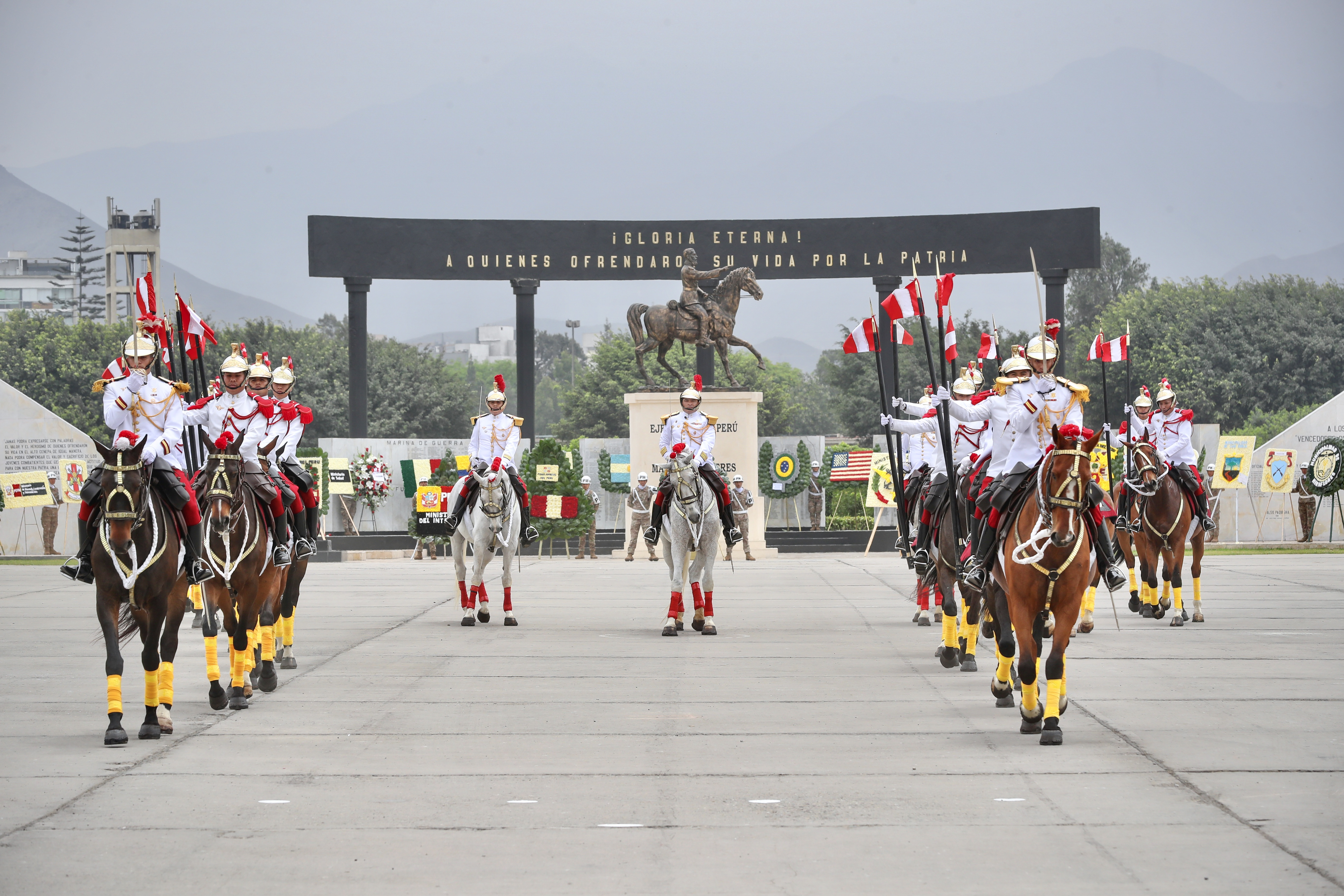 ANIVERSARIO 195 DE LA BATALLA DE AYACUCHO Y DÍA DEL EJÉRCITO DEL PERÚ